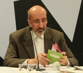 Kesilmiş fotoğraf